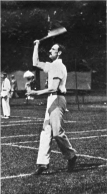 Richard Sears (1861-1943), US tennis player, US champion 1881-87